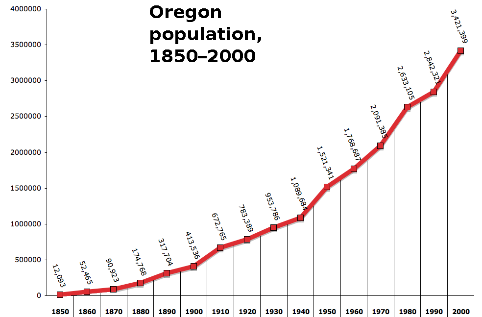 Oregon population. self-made from census data.